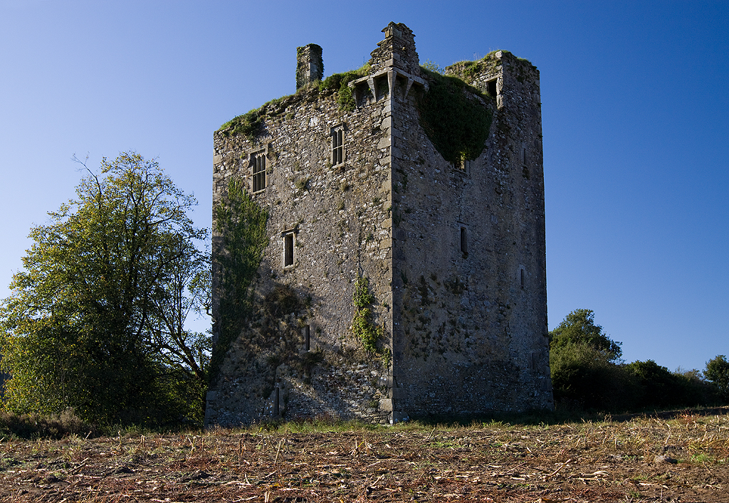 Castles of Munster: Clodah, Cork - revisited (1)